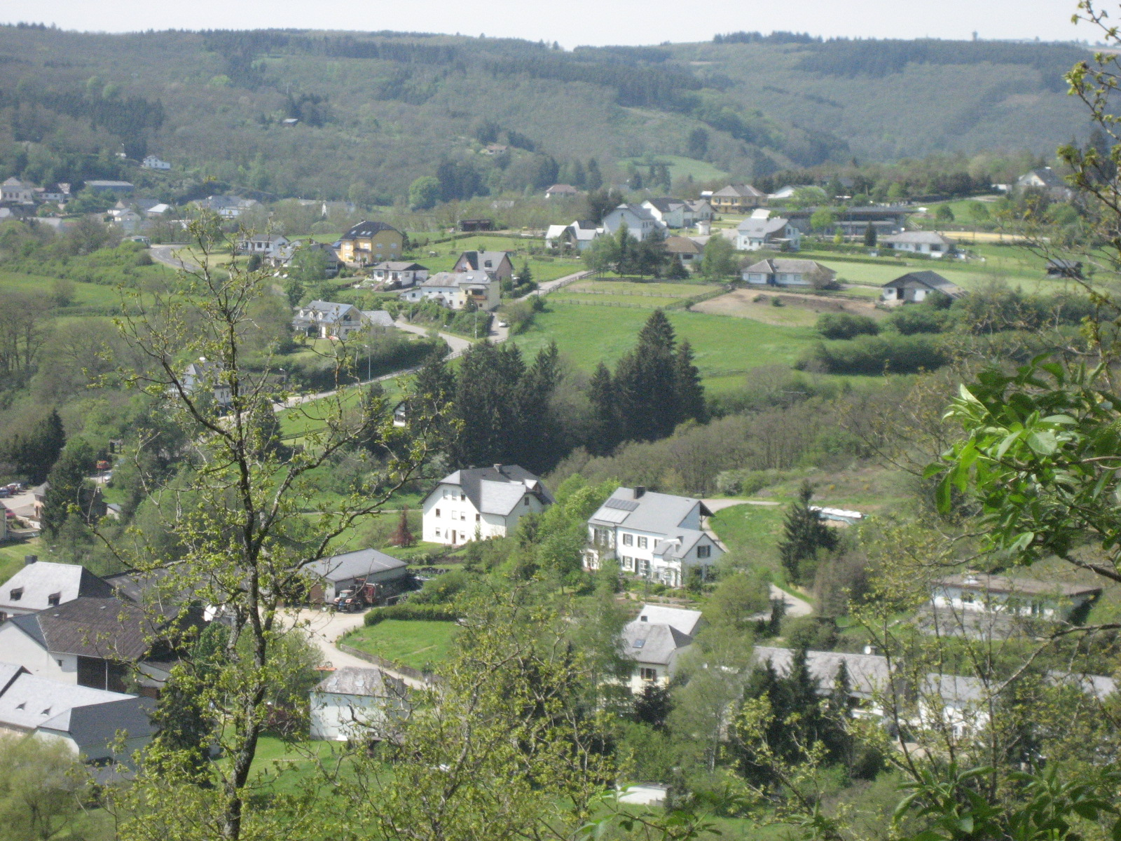 The village of Lellingen in Luxembourg.